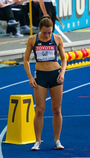 Geena Gall - start of the 800 metres Semifinal at the 2009 World Championships in Athletics.